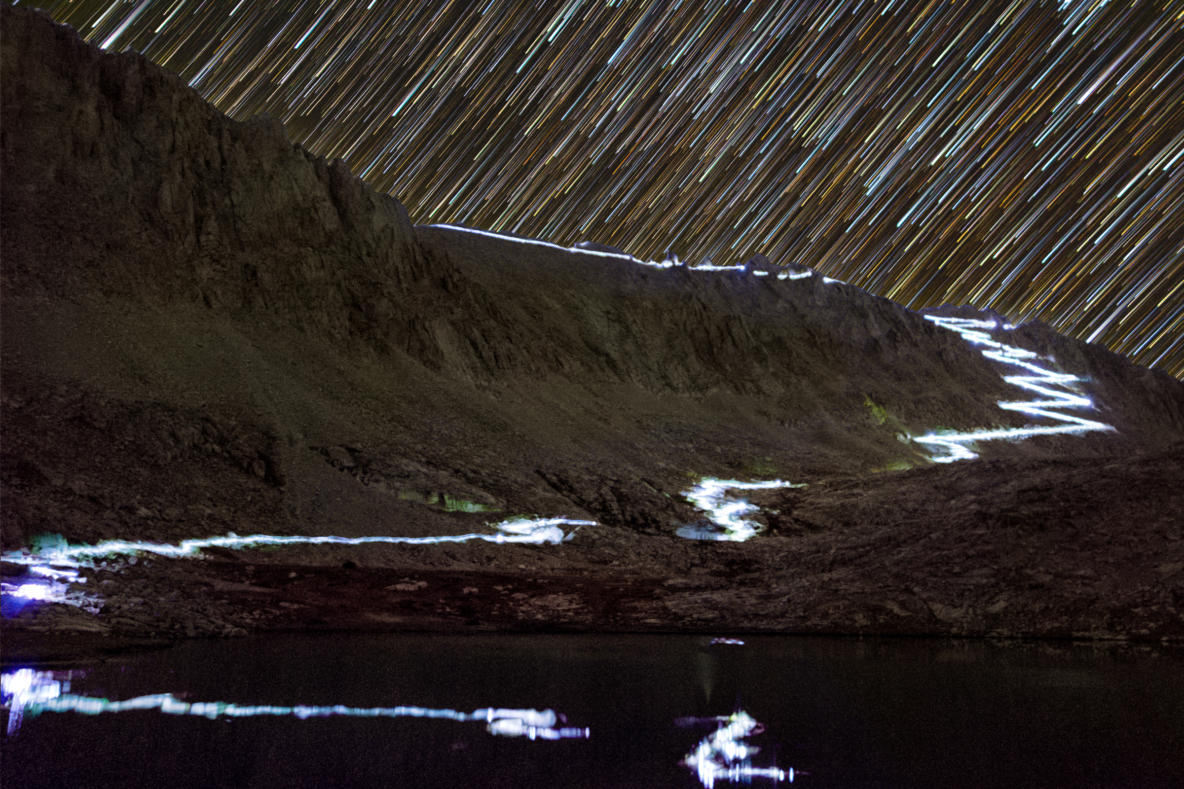 Hikers on the John Muir Trail ascending Mt Whitney before sunrise